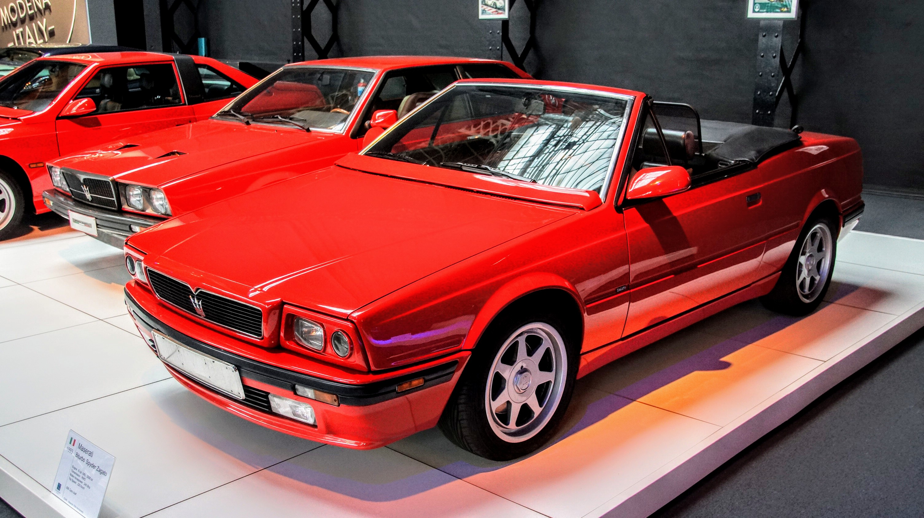 Maserati Biturbo Spyder Zagato at the 100 Years Maserati show at Autoworld Brussels